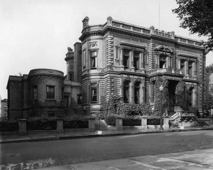 Photograph: Mount Stephen Club, Drummond Street, Montreal, QC, 1934-35; Wm. Notman & Son; 1934-1935, 20th century; Silver salts - Gelatin dry plate process; 20 x 25 cm; Purchase from Associated Screen News Ltd.; VIEW-25493; McCord Museum.